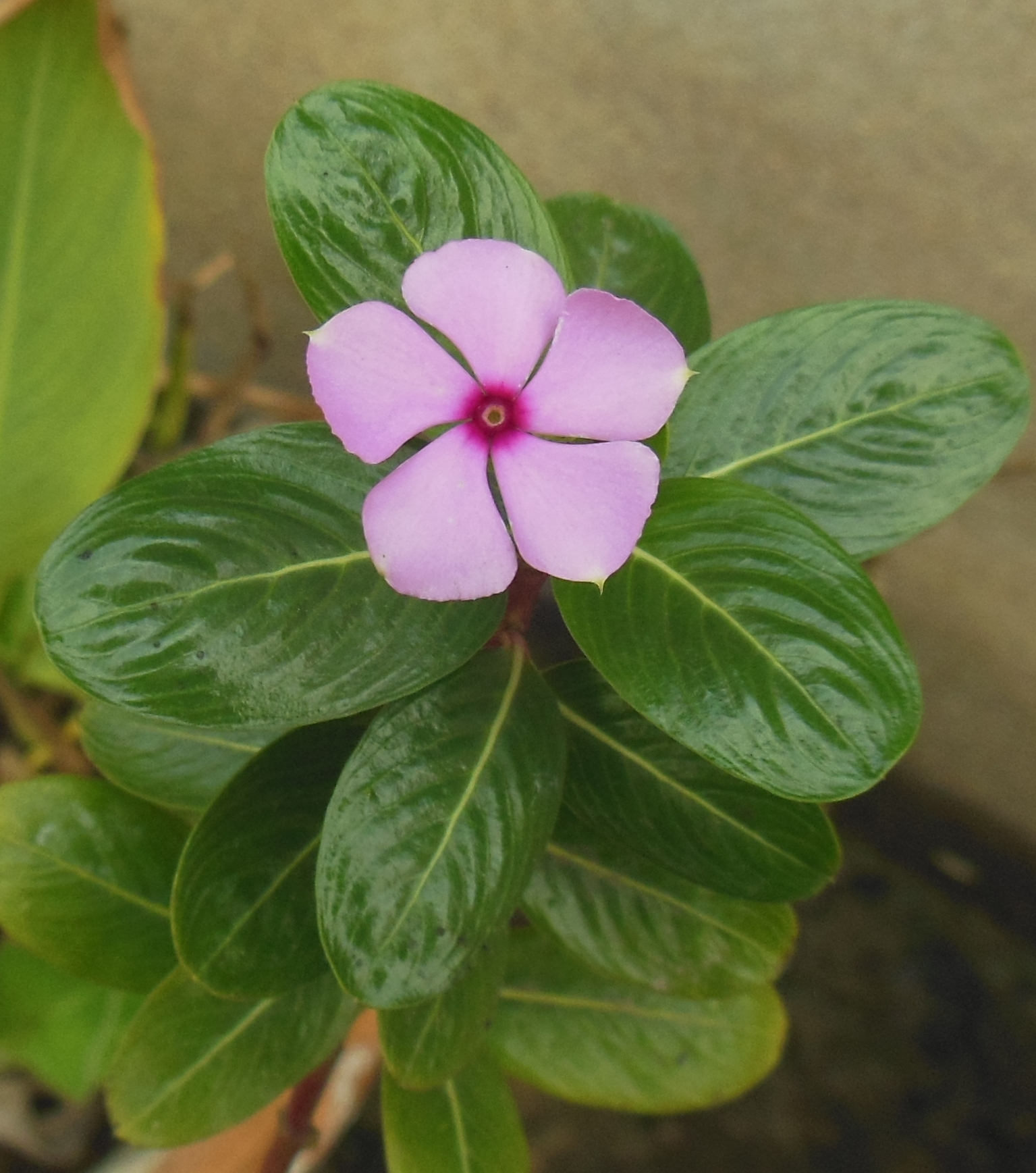 Catharanthus roseus, commonly known as the Madagascar rosy periwinkle, is a species of Catharanthus native and endemic to Madagascar. Other English names occasionally used include Cape periwinkle, rose periwinkle, rosy periwinkle, and "old-maid"